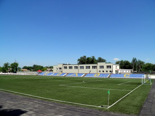 Kolos Stadium in Chkalove, Nikopol Raion, Dnipropetrovsk Oblast, Ukraine